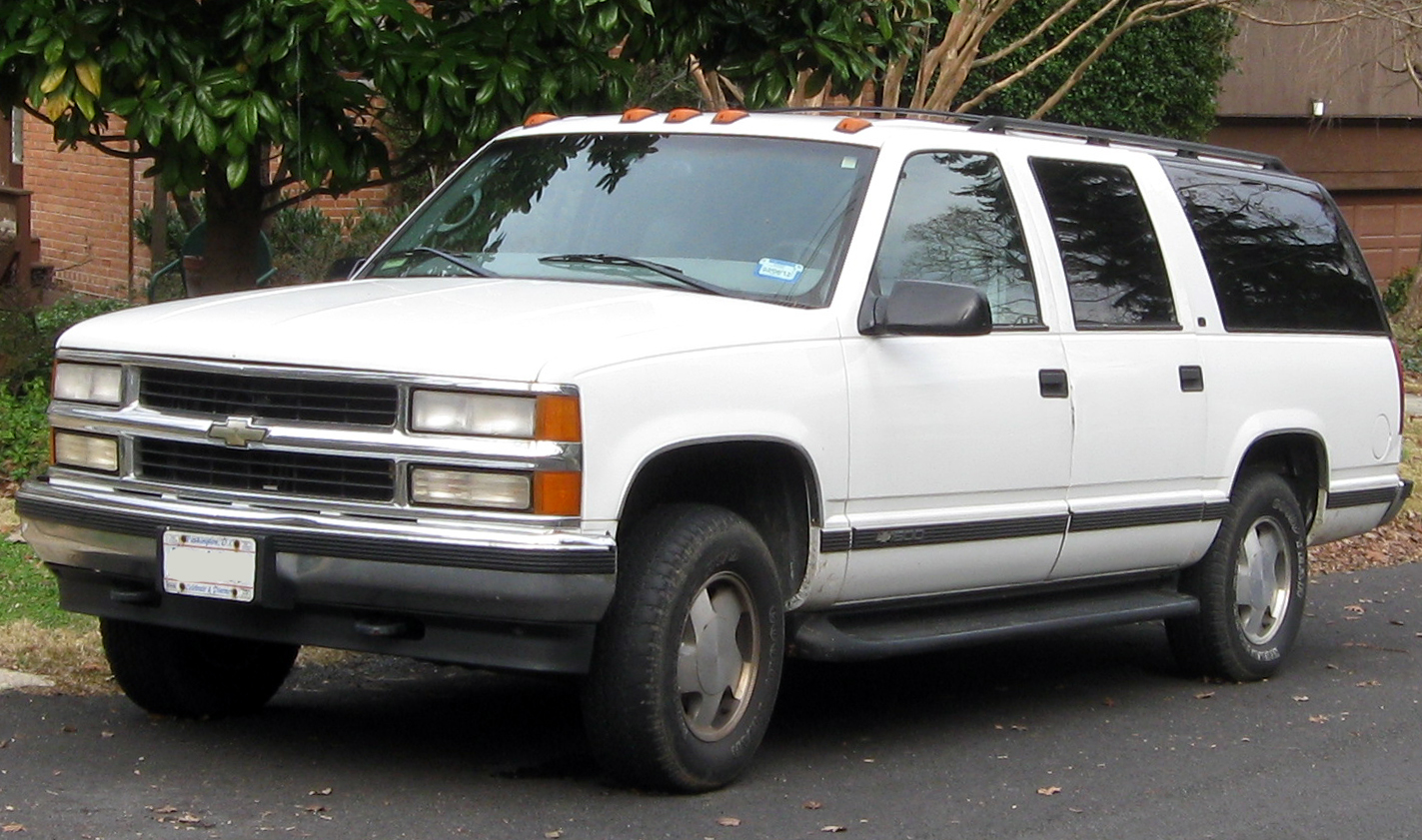 1997-1999 Chevrolet Suburban photographed in Washington, D.C., USA.